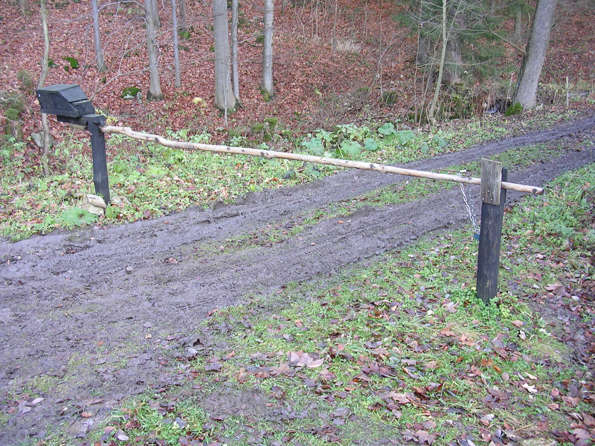 Paseky nad Jizerou, the Czech Republic. A barrier.